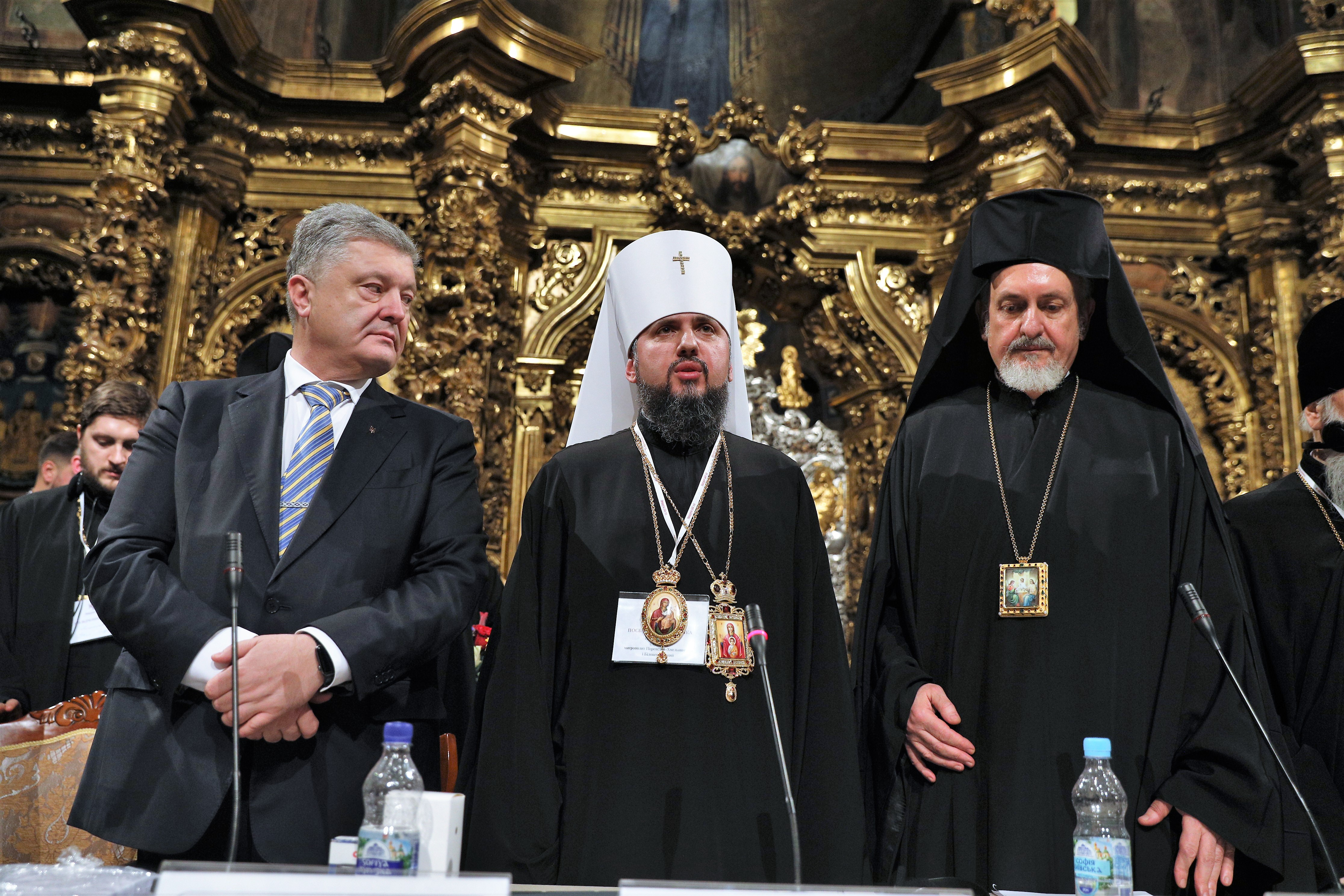 Unification council of Orthodox Church in Ukraine